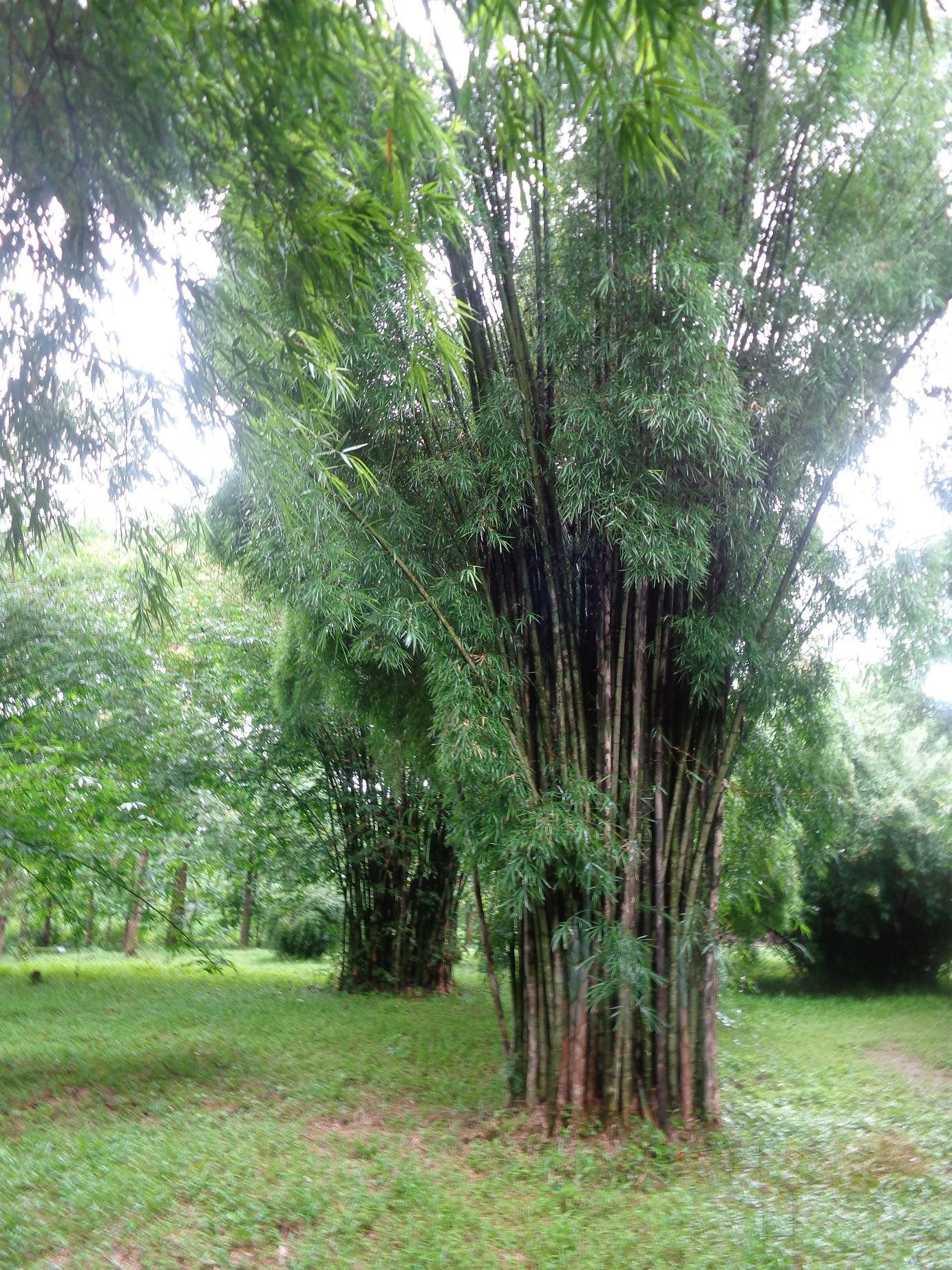 taken from kerlala forest research institure (KFRI) research station veluppadam, trichur kerala, india. board fixed near the perticular bamboo tree